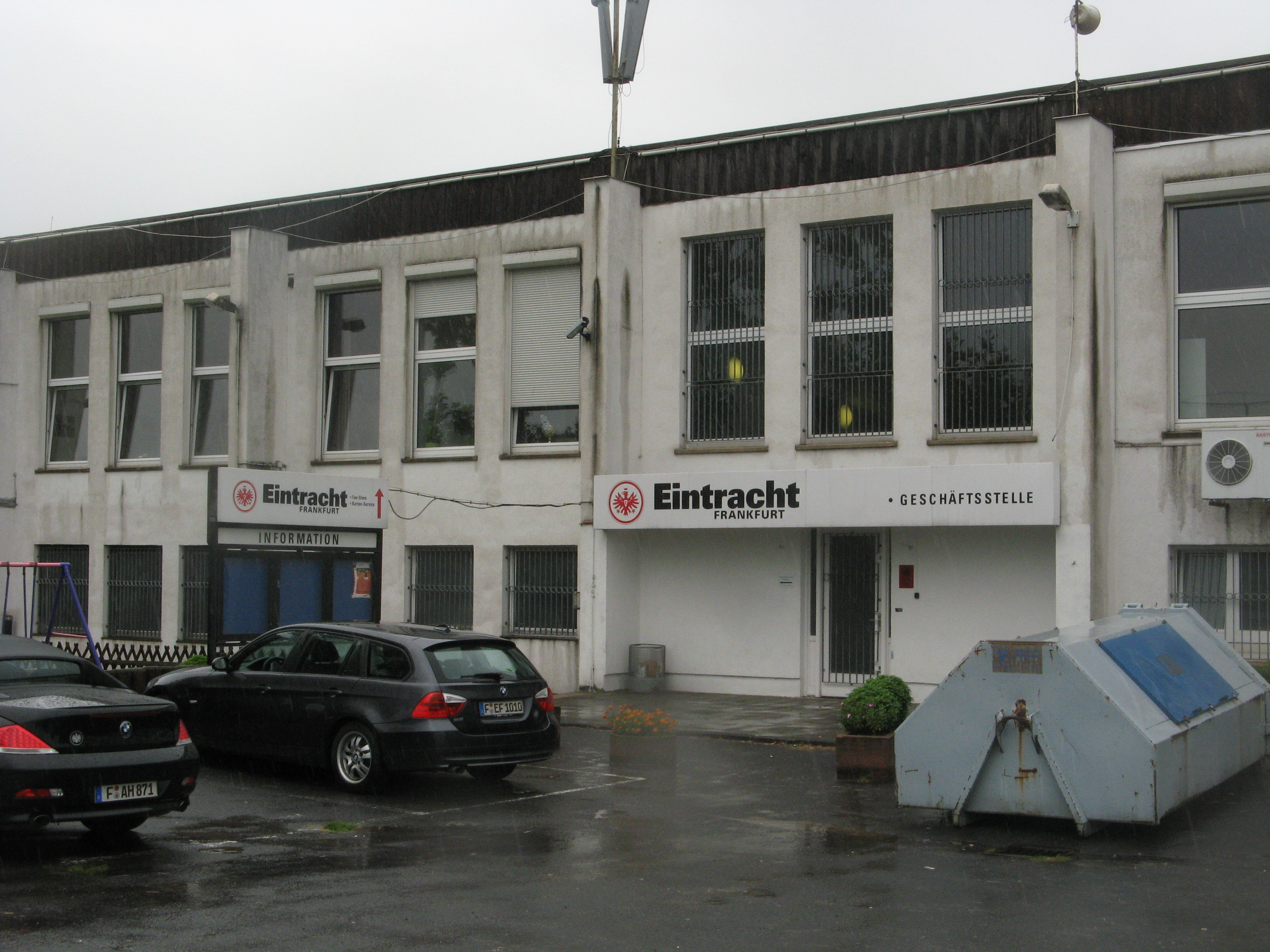 seat of the Verein (not the Bundesliga Club!) Eintracht FRankfurt